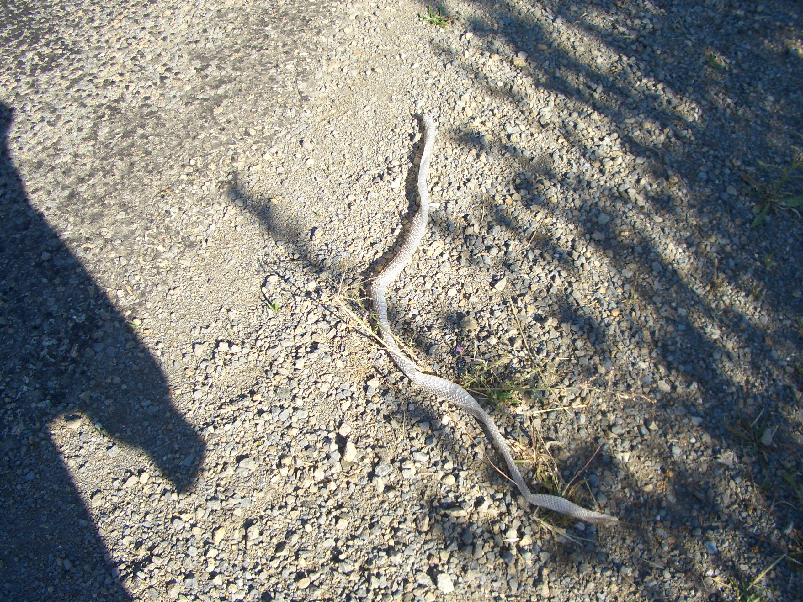 Snakeskin (side of the road). Turkey.